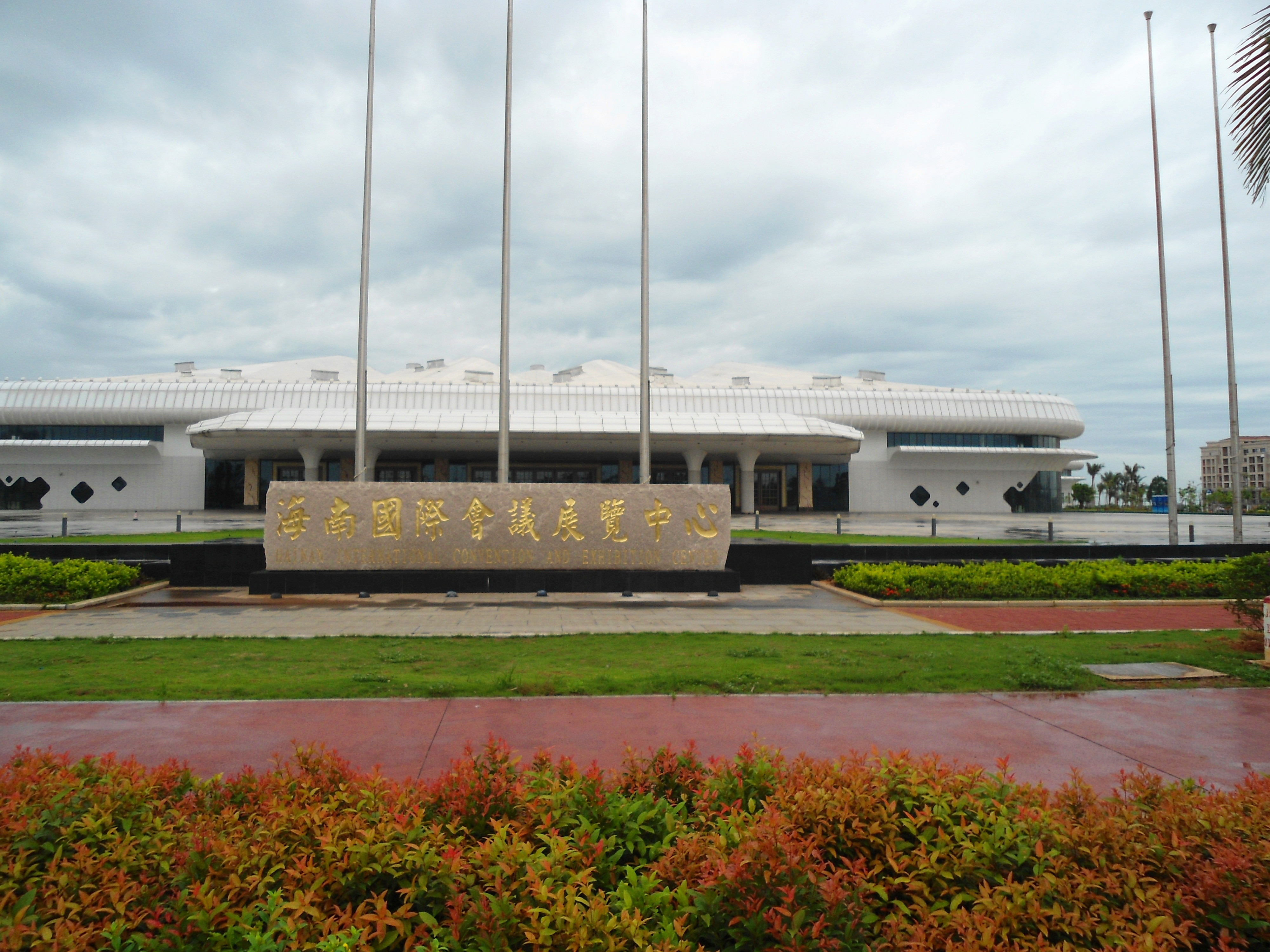 Hainan International Convention And Exhibition Center, Hainan Province, SE China.